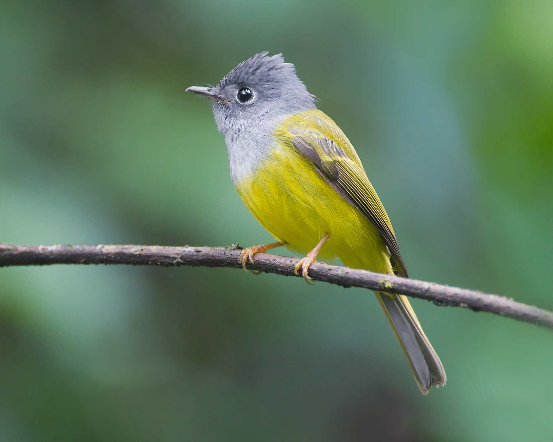 Grey-headed Canary-flycatcher (Culicicapa ceylonensis), Mae Wong National Park, Nakhon Sawan, Thailand